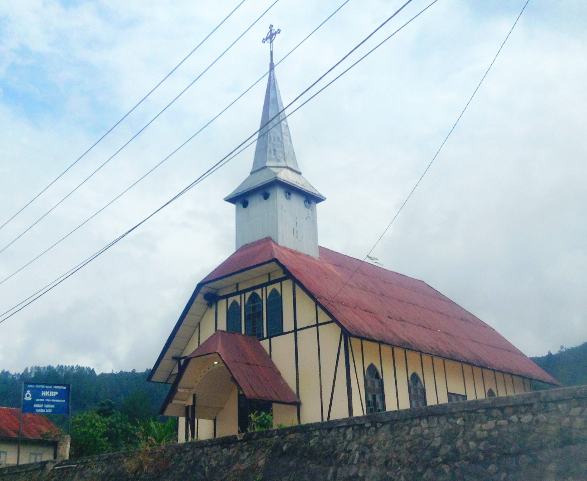 HKBP Tangga Batu, Church in Tangga Batu, Tampahan, Toba Samosir